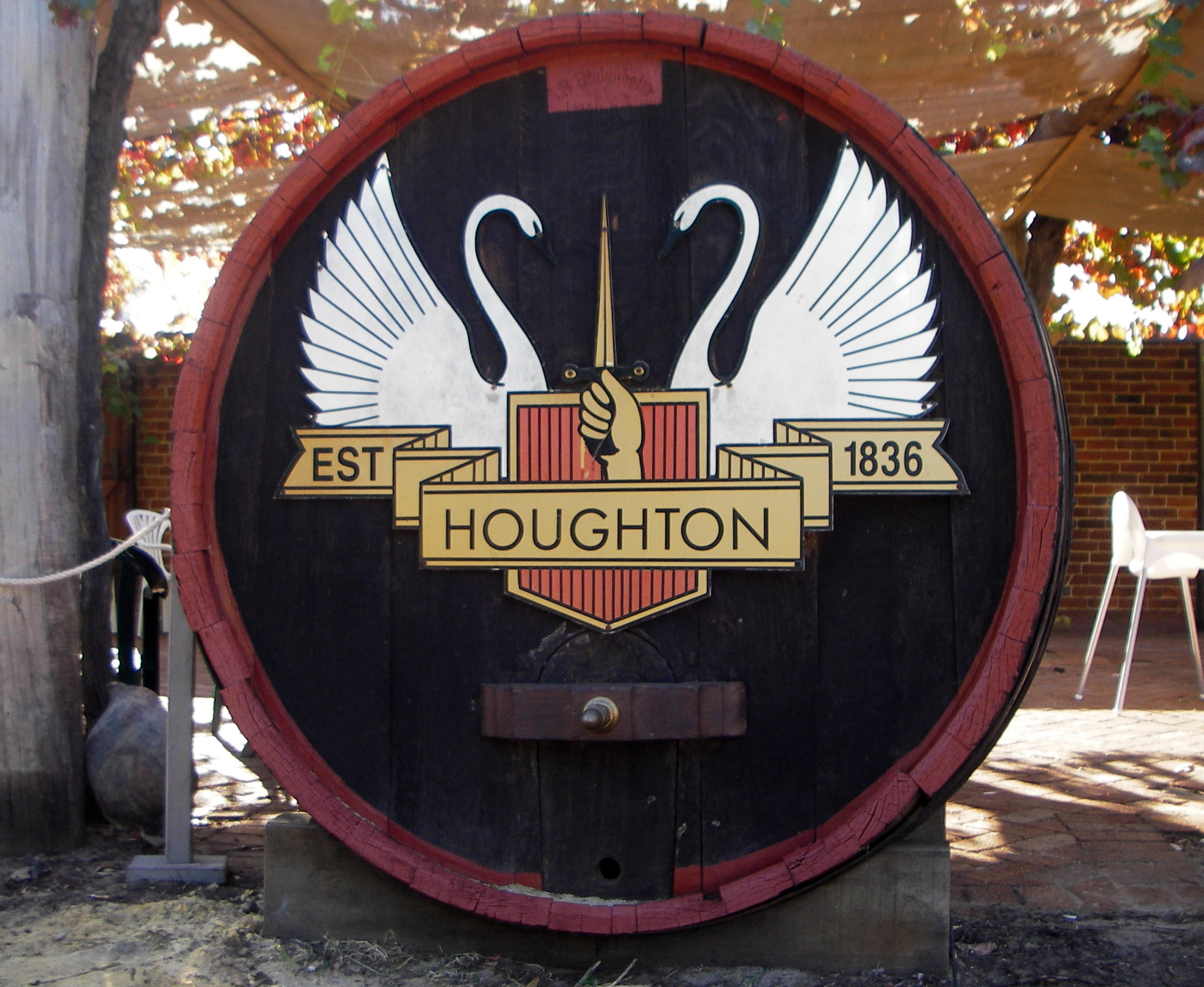 Houghtons Winery.